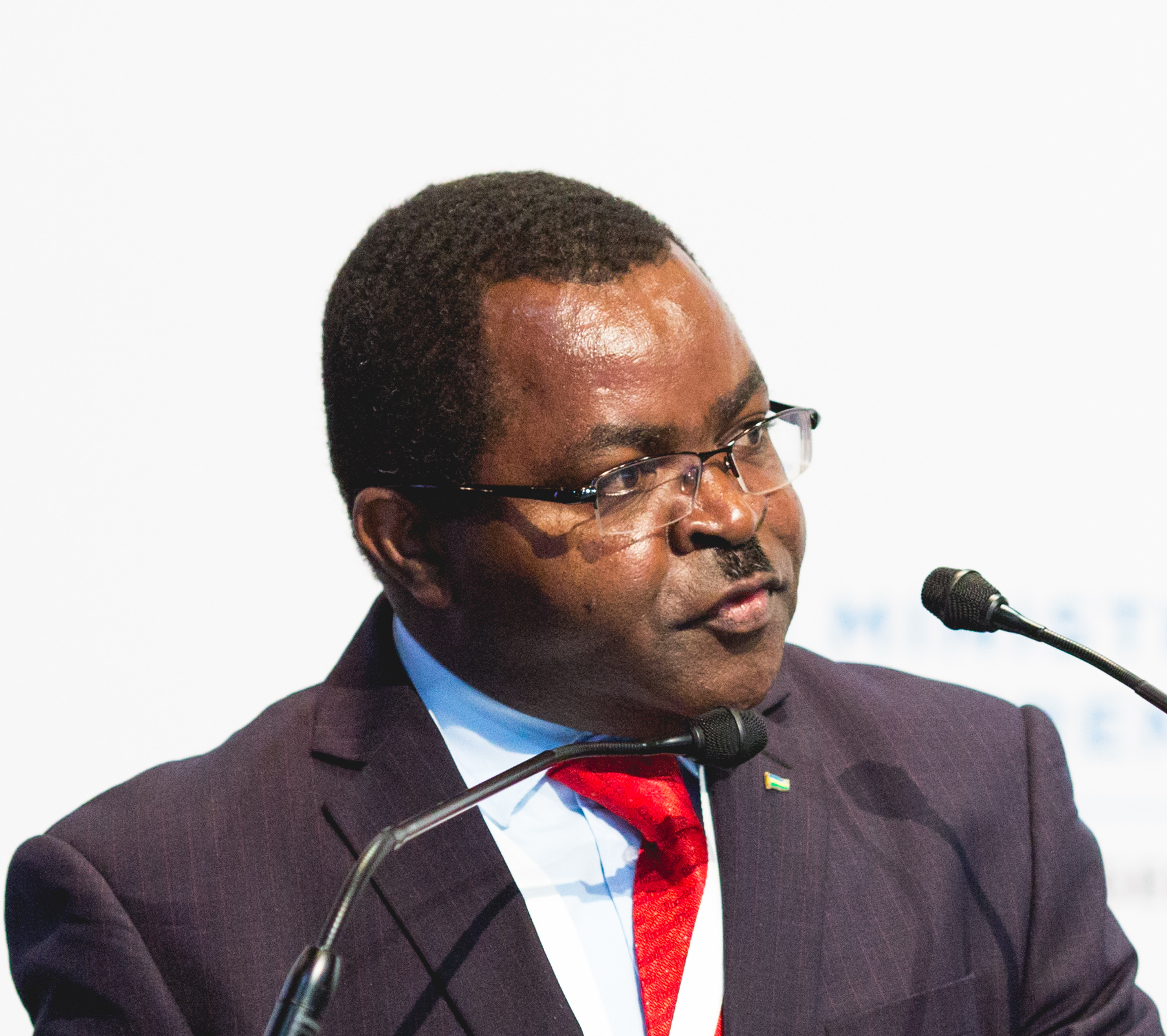 Photos from the plenary session 12 December morning photo gallery may be reproduced provided attribution is given to the WTO and the WTO is informed. Photos: © WTO/ Cuika Foto